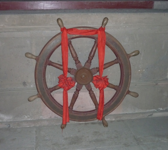 The refurbished wooden steering wheel of the SS Jiangya or Kiangya, which was sunk by a mine in the Huangpu River in Shanghai en route to Ningbo in 1948 in China's greatest maritime disaster. It was later recovered and repaired. The wheel is now preserved at the East Zhejiang Maritime Affairs and Folk Customs Museum in central Ningbo.